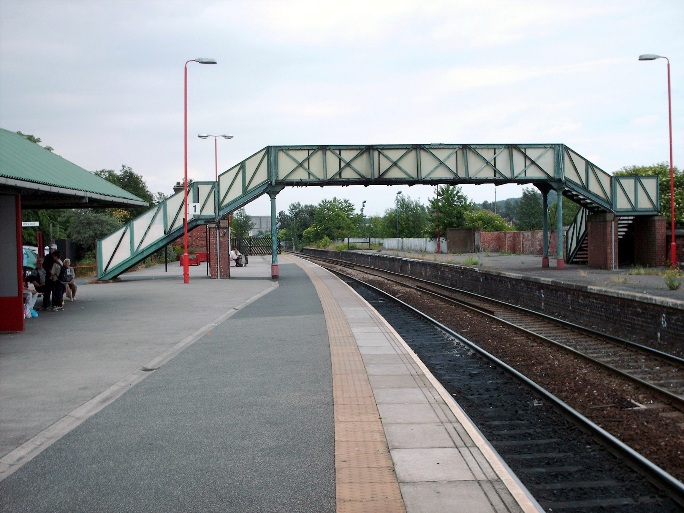 Castlford railway station, West Yorkshire, England. Platform 1 in 2006.